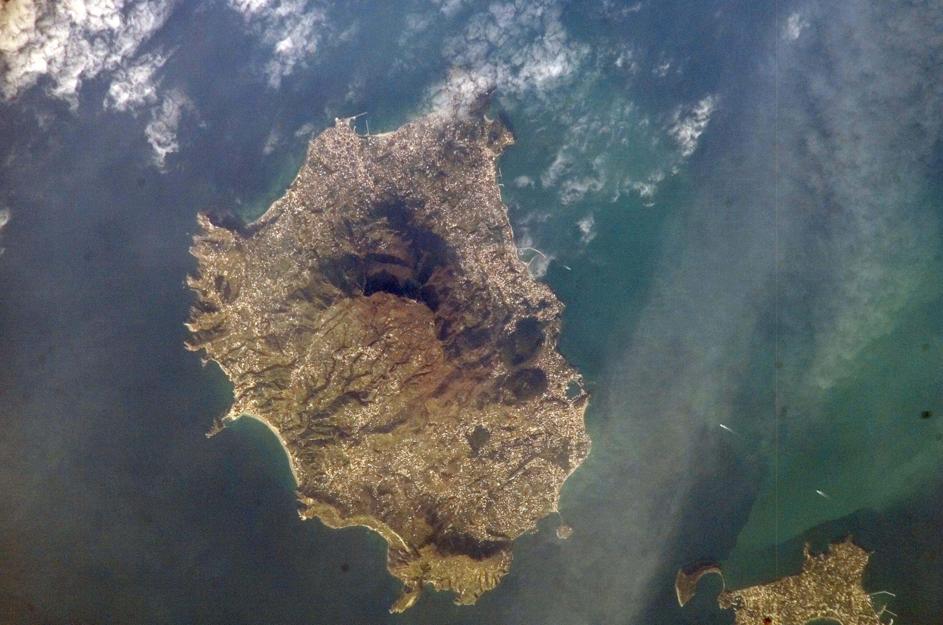 Ischia Island